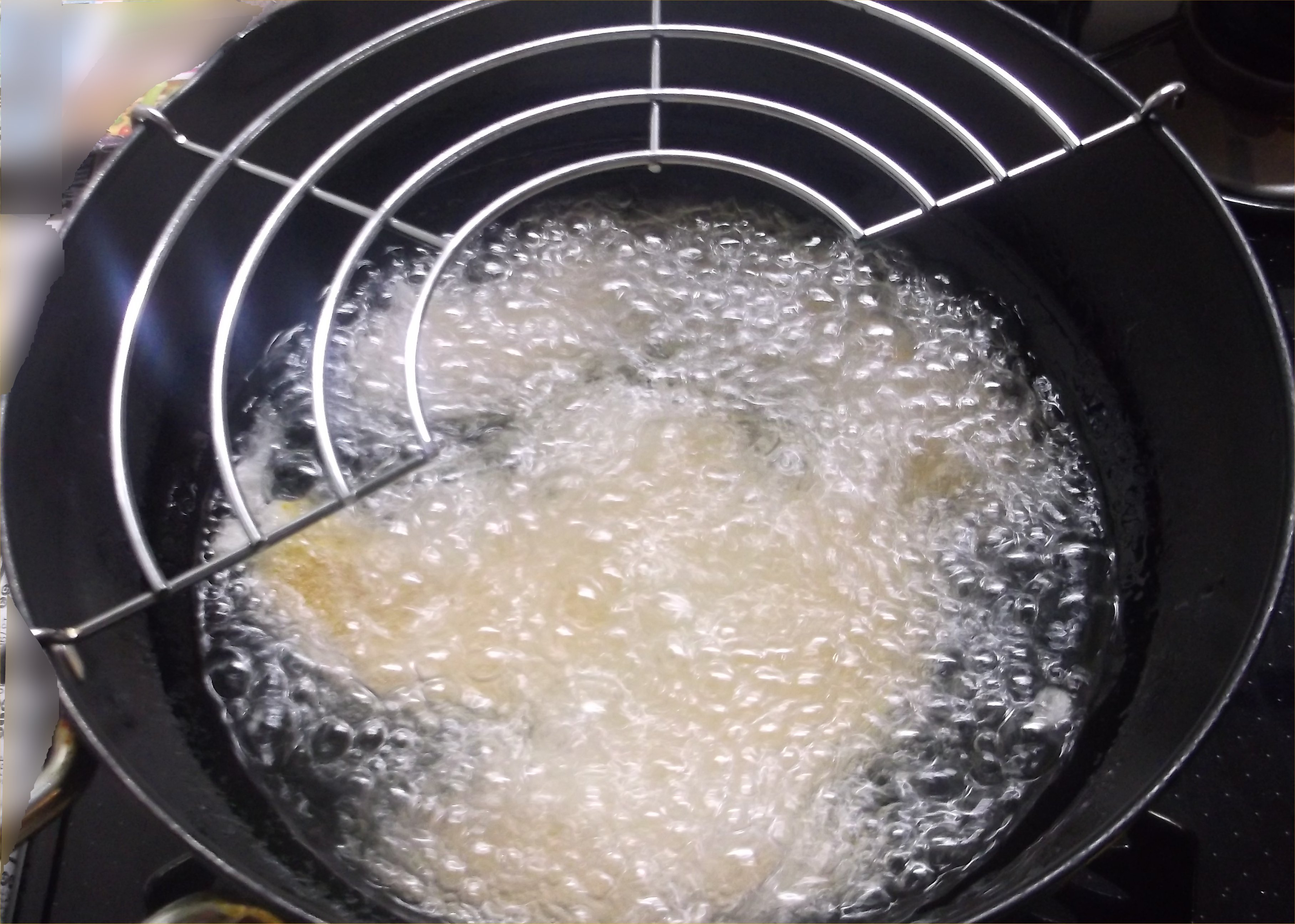 A photo of frying Tempura of Kabocha in the deep fryer.